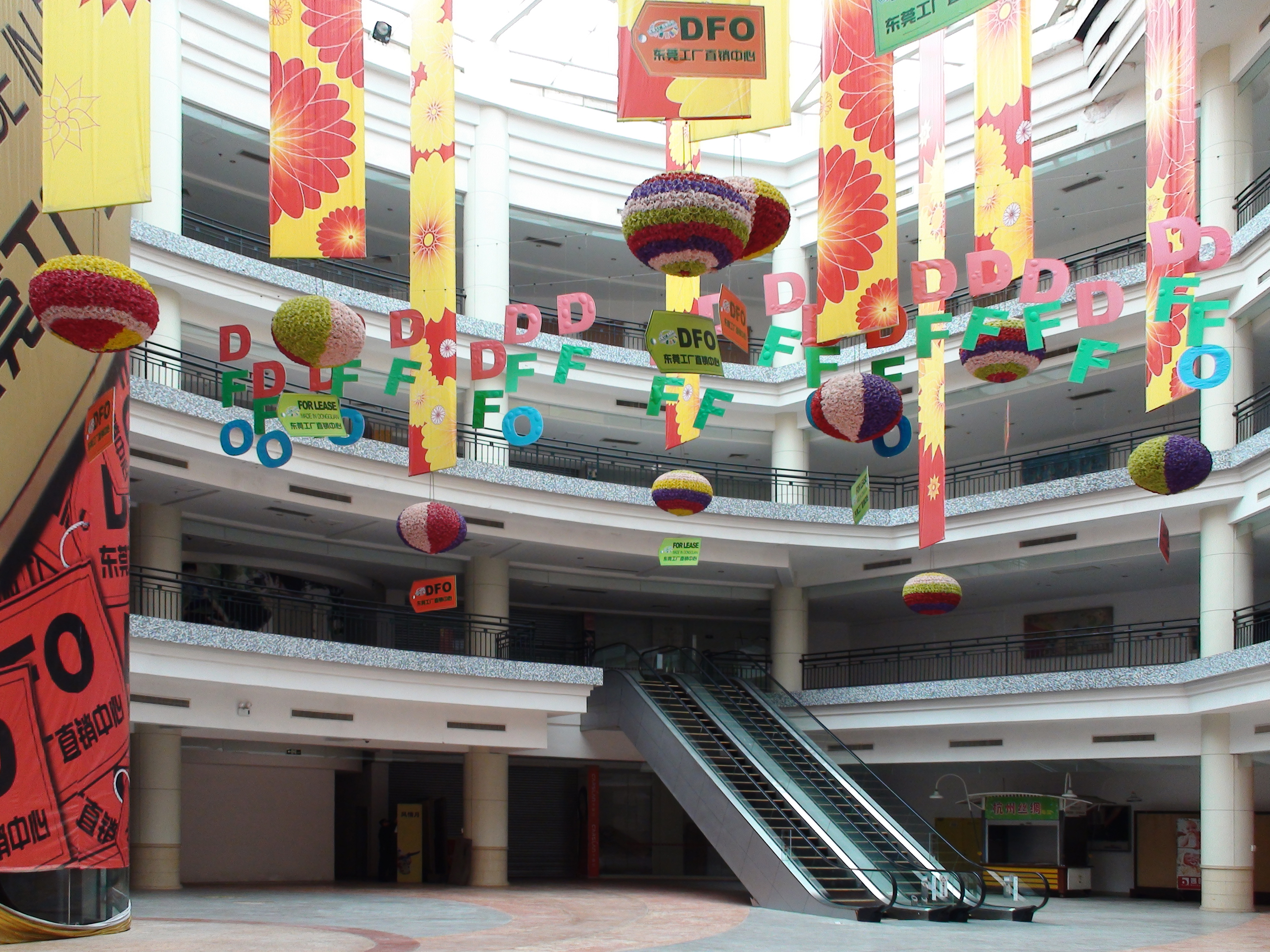 Empty section of New South China Mall, Dongguan, Guangdong, China.